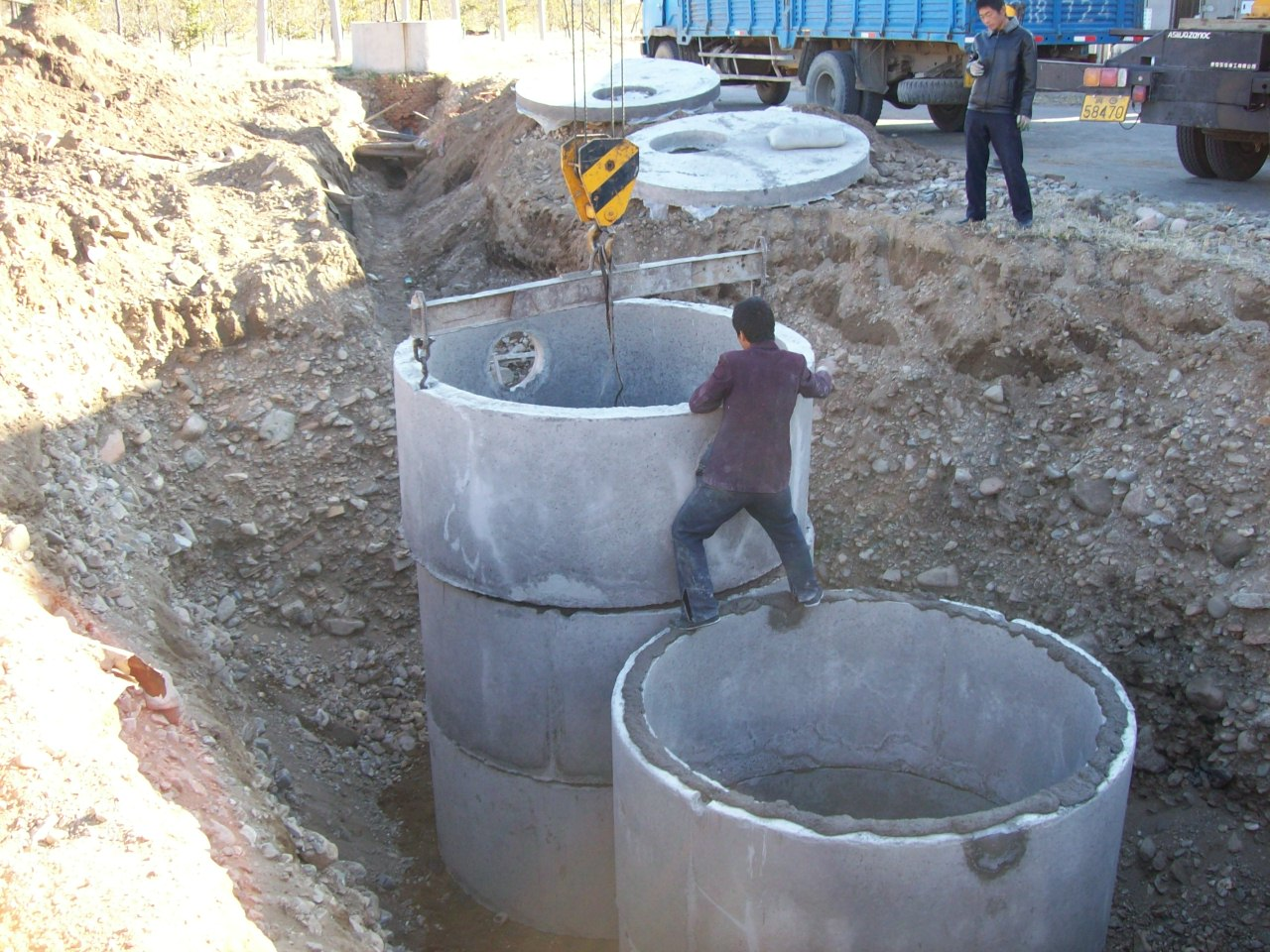 Picture of a septic tank installation made of two concrete rooms on a chinese site in november 2008